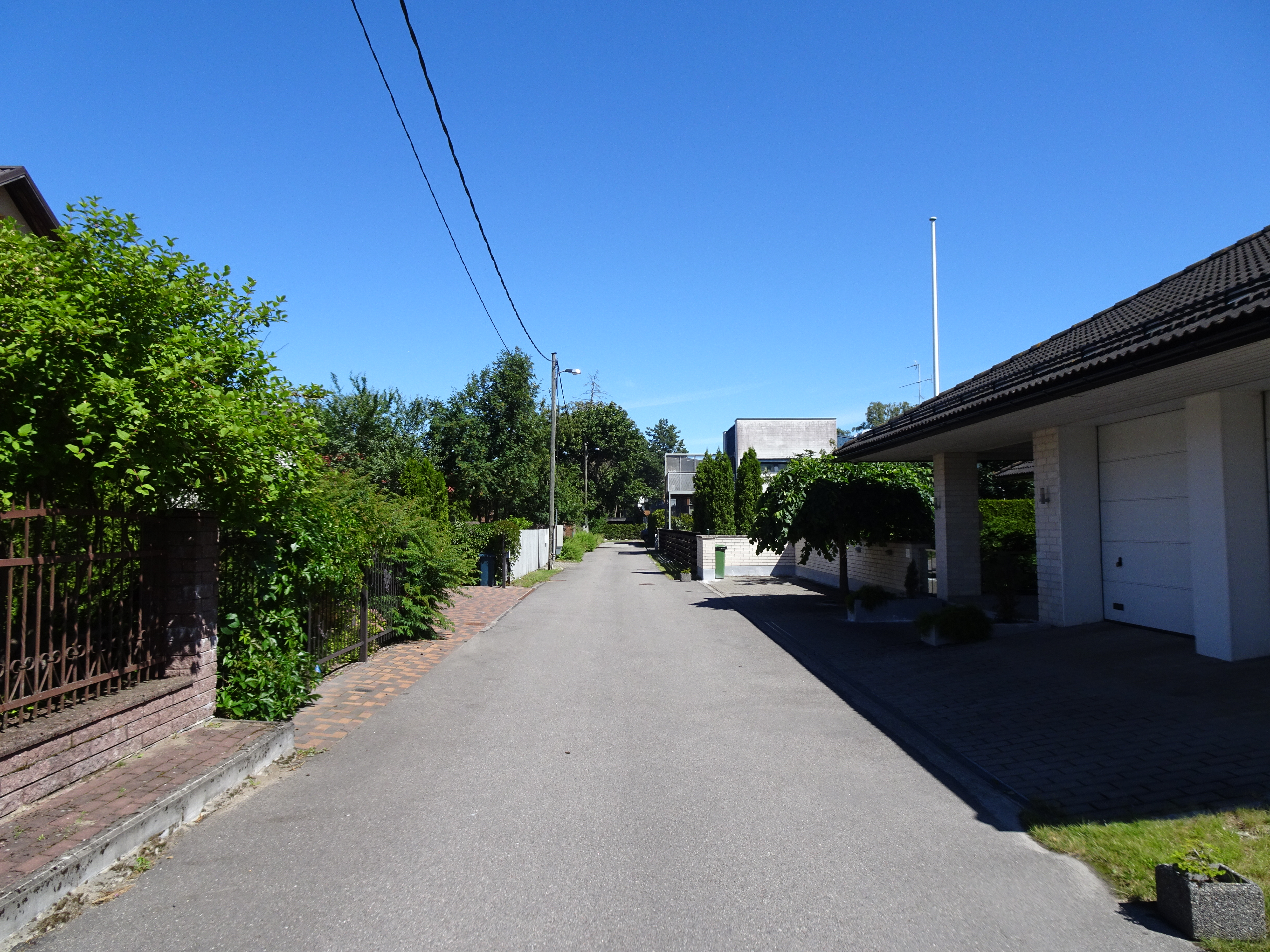 Kiuru Street in Tallinn, Estonia